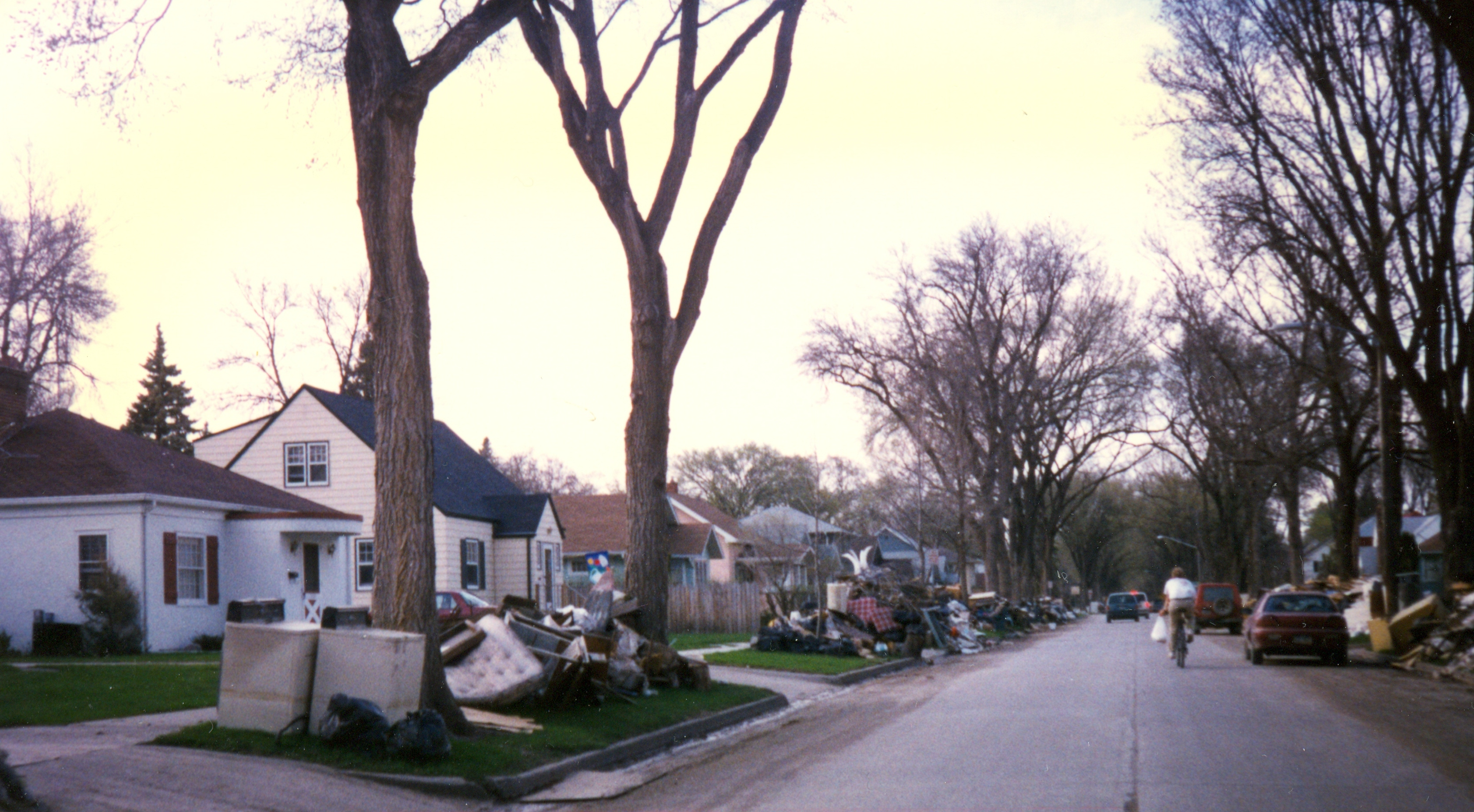 After the 1997 Red River flood, neighborhoods in Grand Forks, North Dakota had large piles of flood-damaged possessions placed in front of their homes for city pick-up.